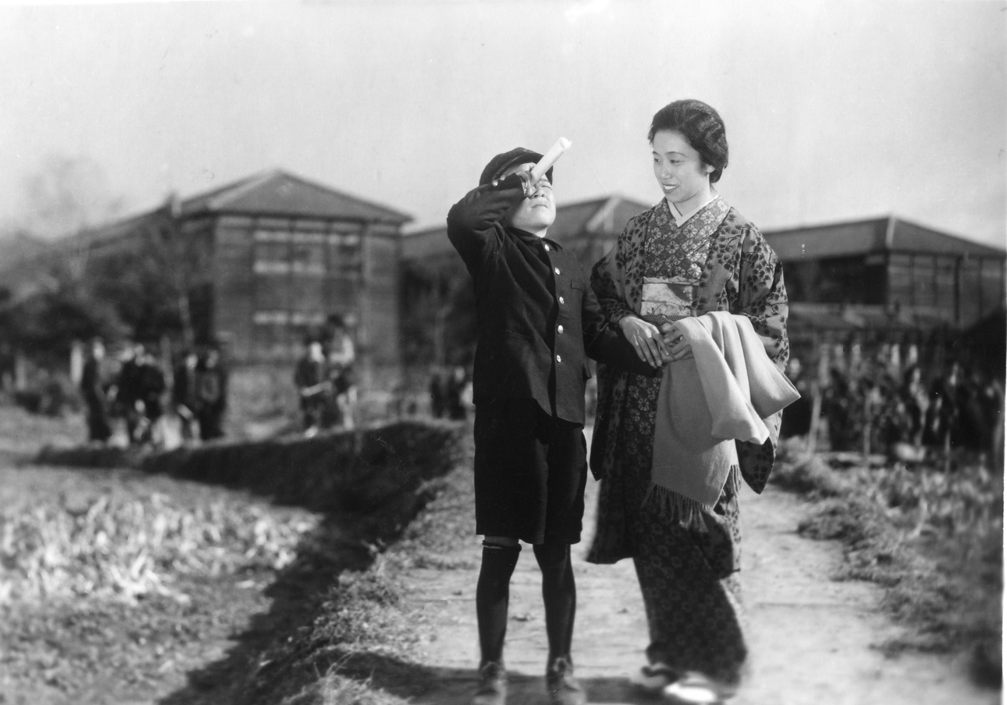 Haruko Sugimura in Te o tsunagu kora (手をつなぐ子等) directed by Hiroshi Inagaki - 1948